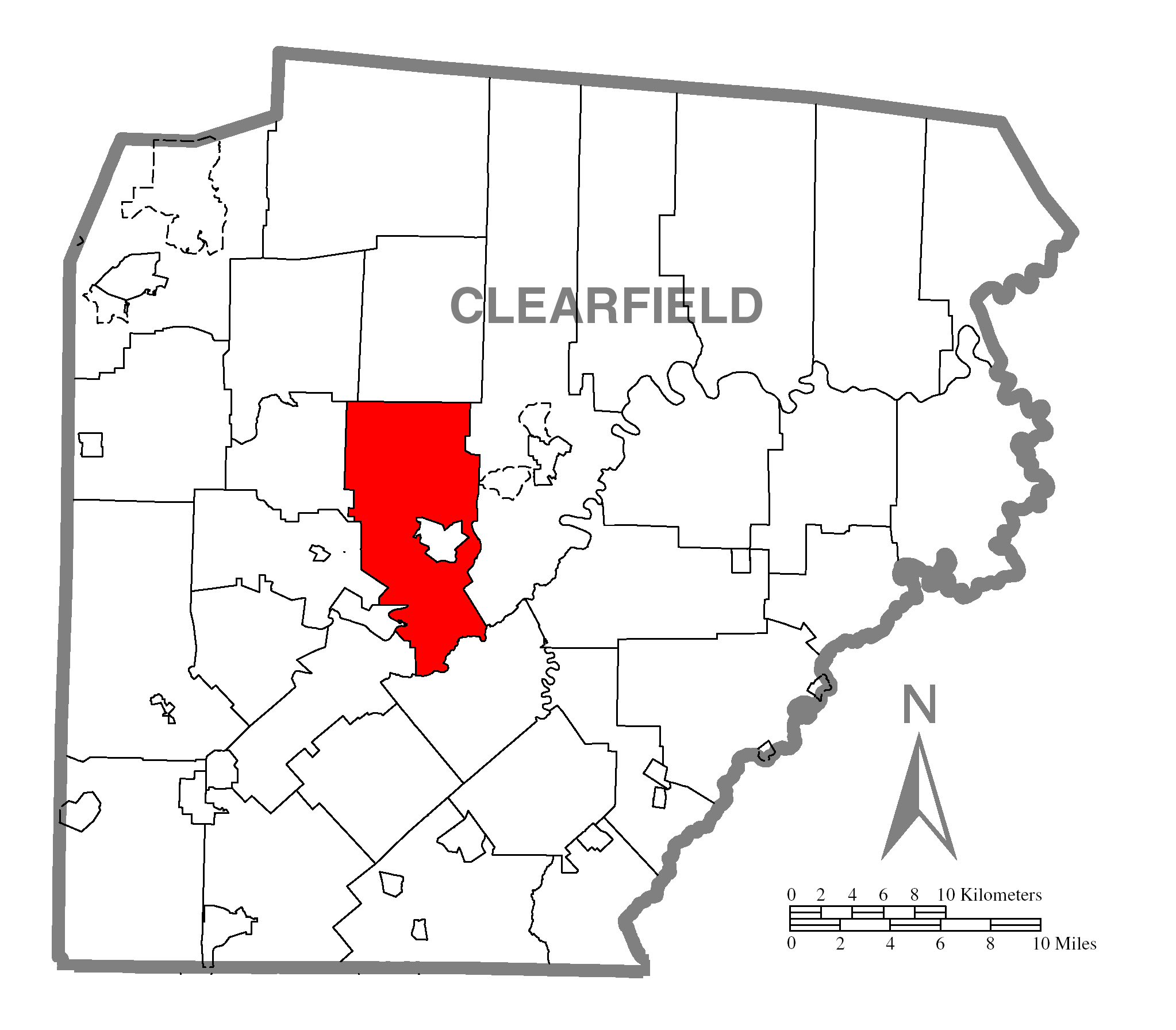 A map of Clearfield County showing Pike Township, Pennsylvania (alternate) highlighted on the map.